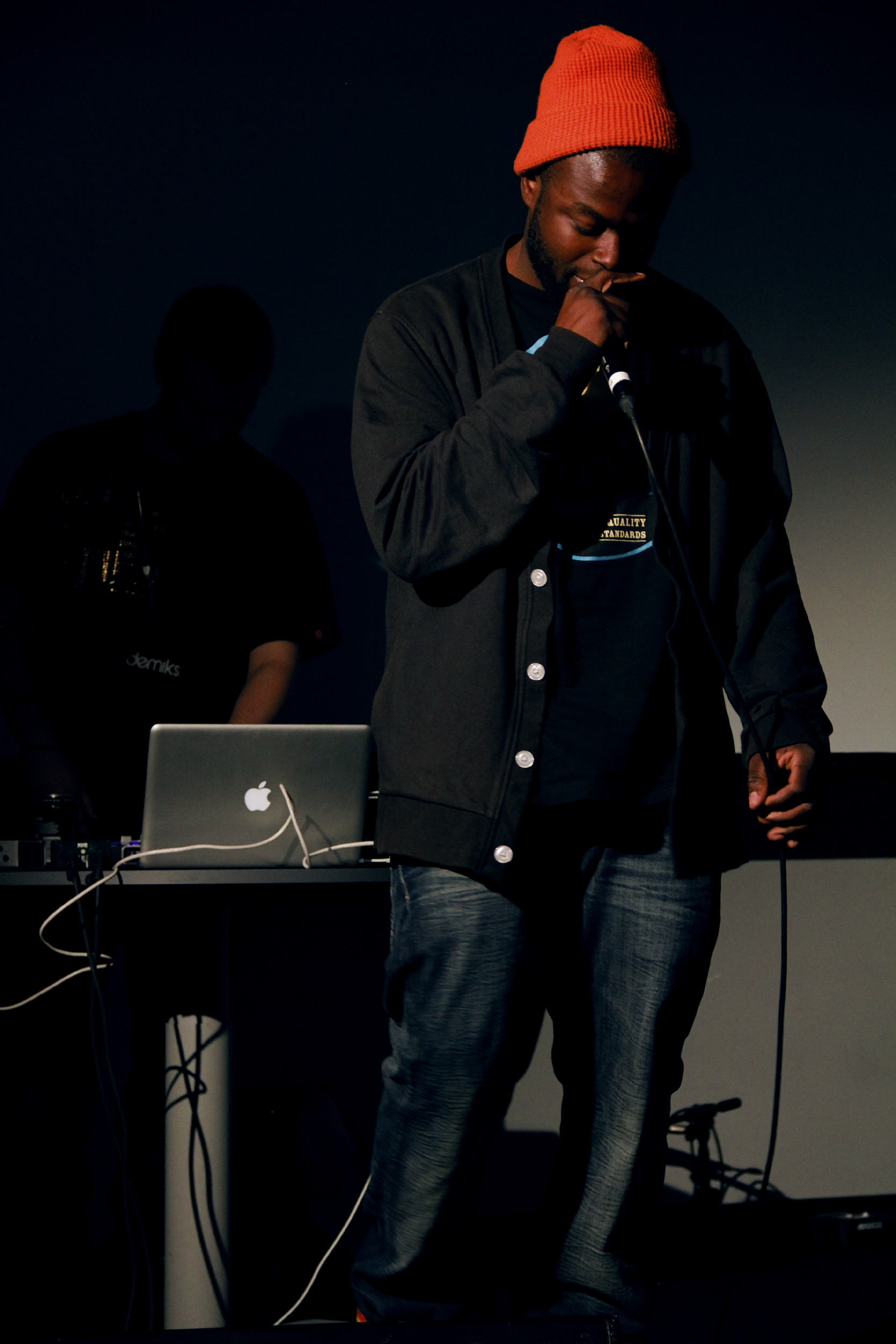 Finnish rap duo The Megaphone State performing at Sello library in Espoo, Finland. Rapper Ekow on the mic.